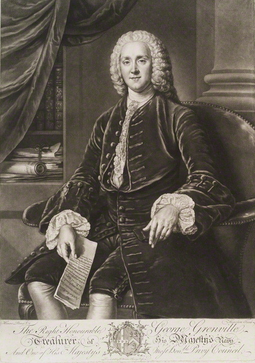 Portrait of George Grenville (1712-1770)